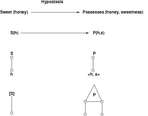 Diagram for replacing the ASCII art on Hypostatic abstraction